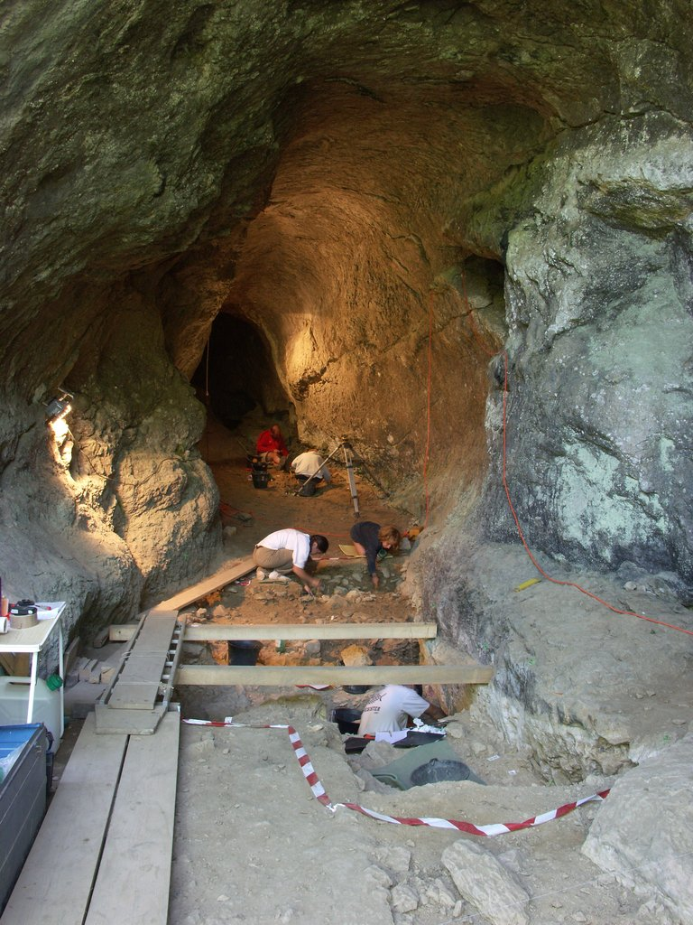 The excavation of the noisetier cave in summer 2005.